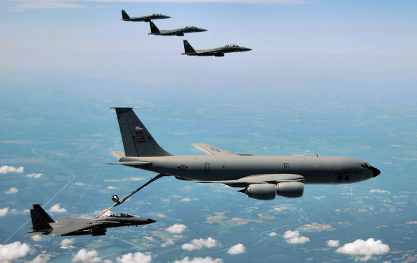 KC-135R of the 916th Air Refueling Wing - Seymour Johnson AFB, NC Refueling 4th FW F-15E Strike Eagles.